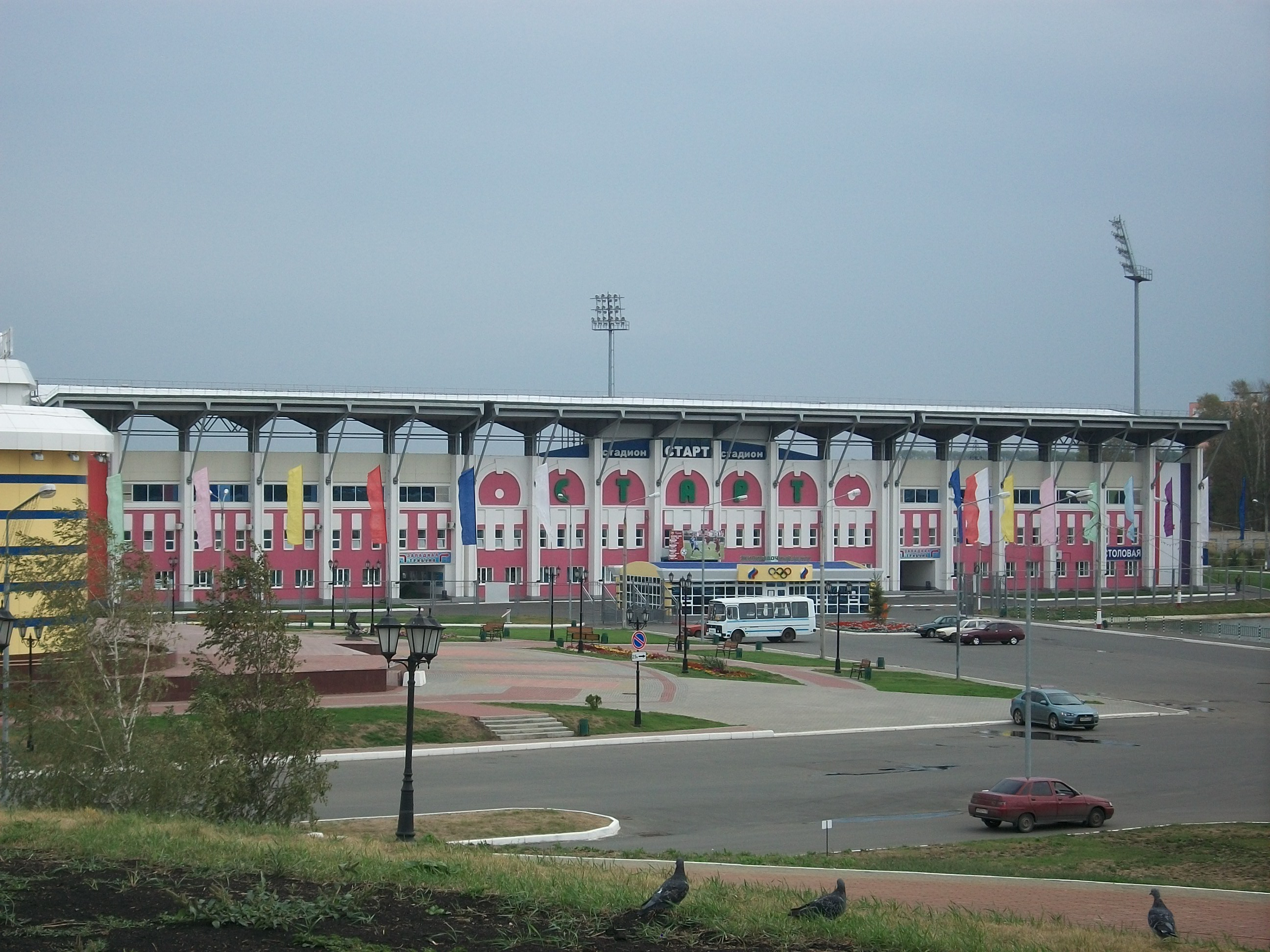 «Start» stadium (Saransk, Mordovia Republic, Russia)